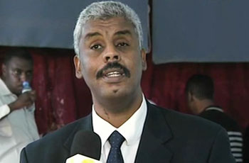 Wael Omer Abdin, Leader of the Sudanese Shadow Government